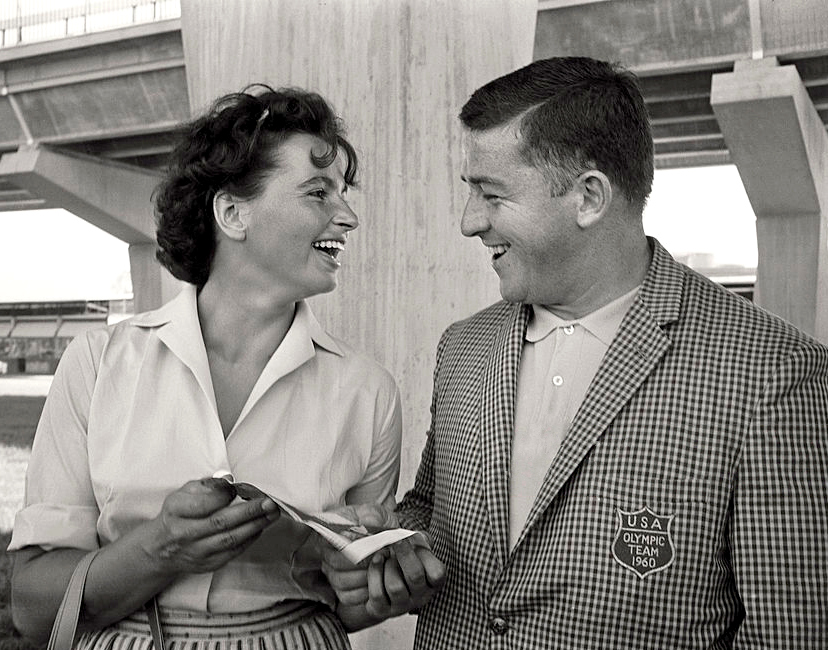 Olga Fikotova and Hal Connolly at the 1960 Olympics.